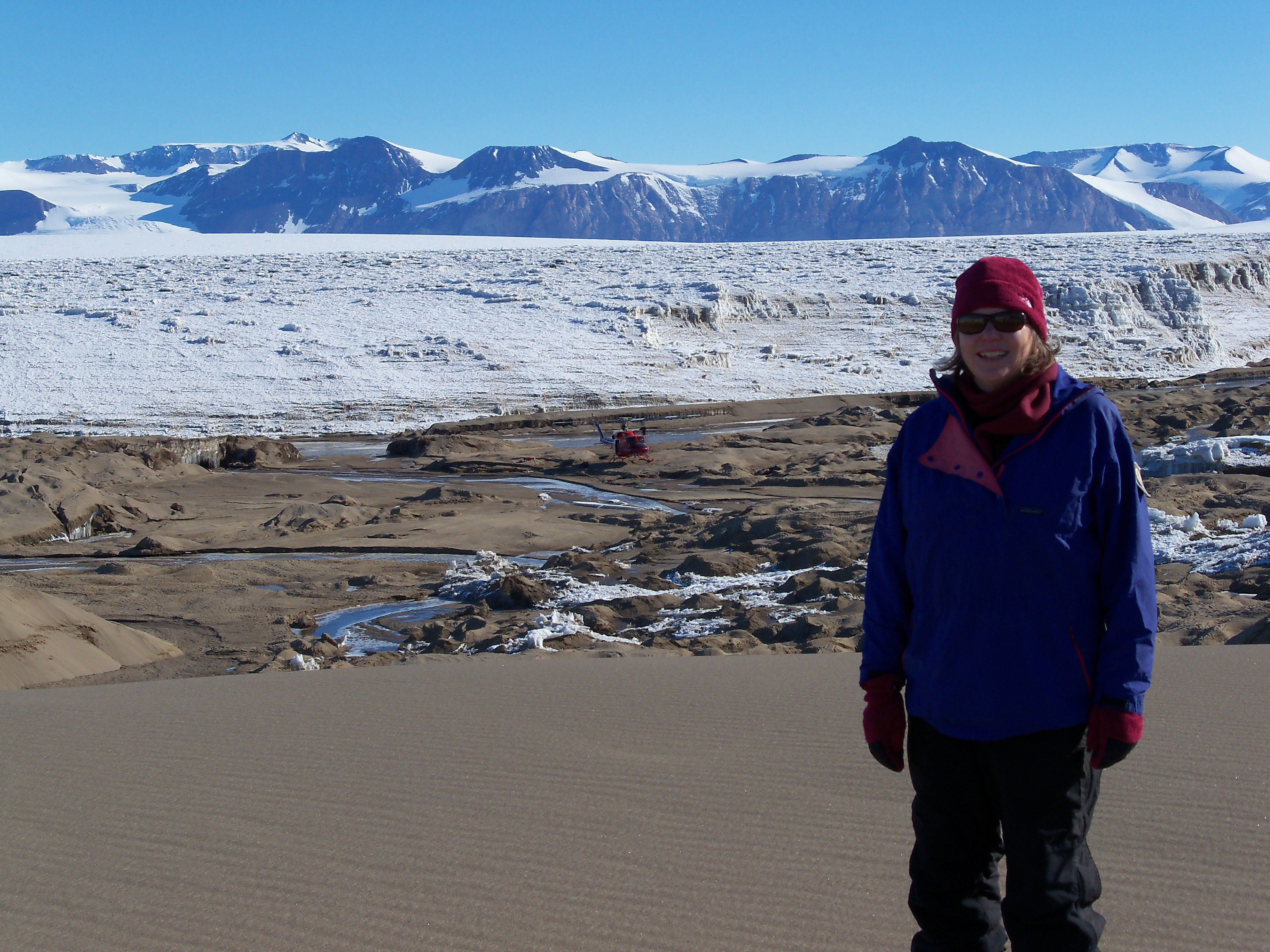 Diane McKnight is standing on sediment accumulated on the Cotton Glacier in the McMurdo Dry Valleys in Antarctica.